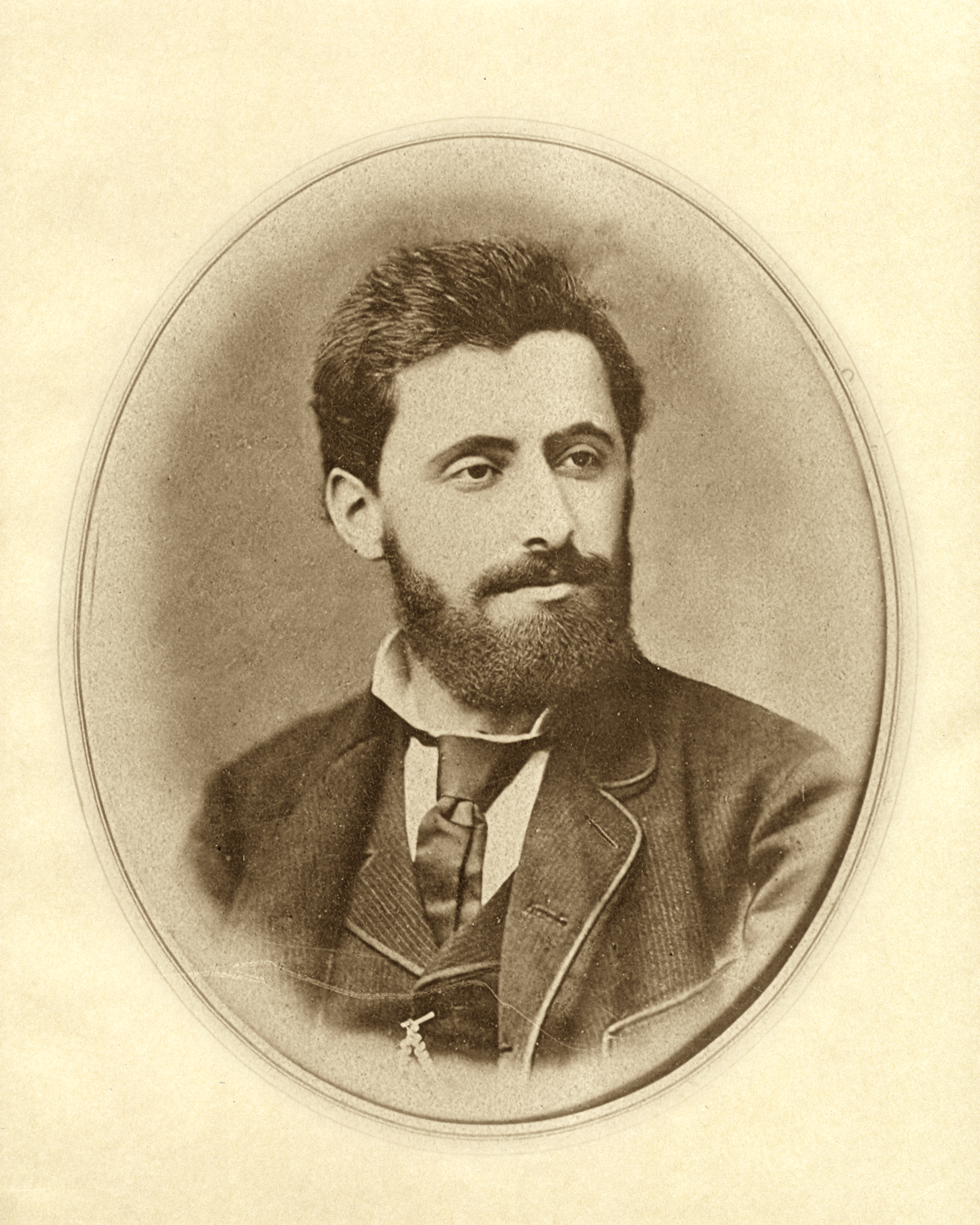 Photograph of Jovan Grčić (1855-1941), Serbian writer, literary, theater and music critic, translator and professor of the Serbian Orthodox Gymnasium in Novi Sad. Srpski (latinica): Fotografija Jovana Grčića (1855-1941), srpskog književnika, književnog, pozorišnog i muzičkog kritičara, prevodioca i profesora Srpske velike pravoslavne gimnazije u Novom Sadu.